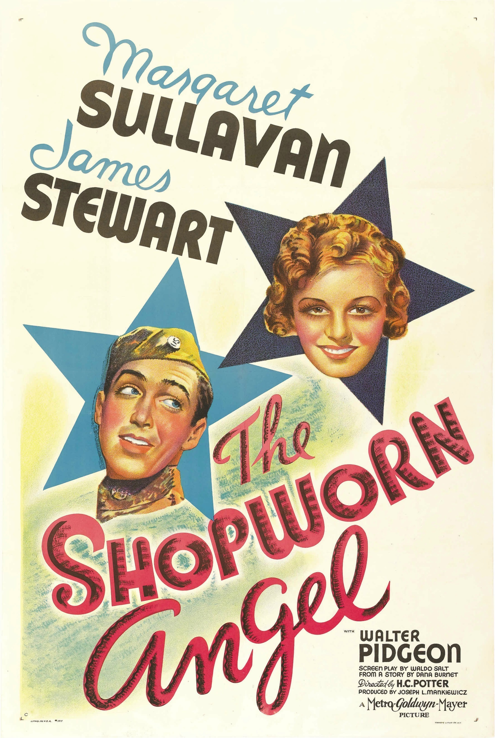 Poster for the American film The Shopworn Angel (1938). There are no copyright marks on the itam. At lower left is "C" (poster version C) and Litho in USA #1917 . At lower right is Tooker Litho Co., NY-they printed the poster.